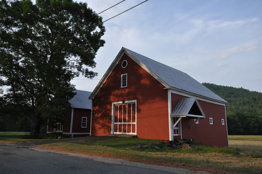 Foster Family Home Barns, Newry, Maine